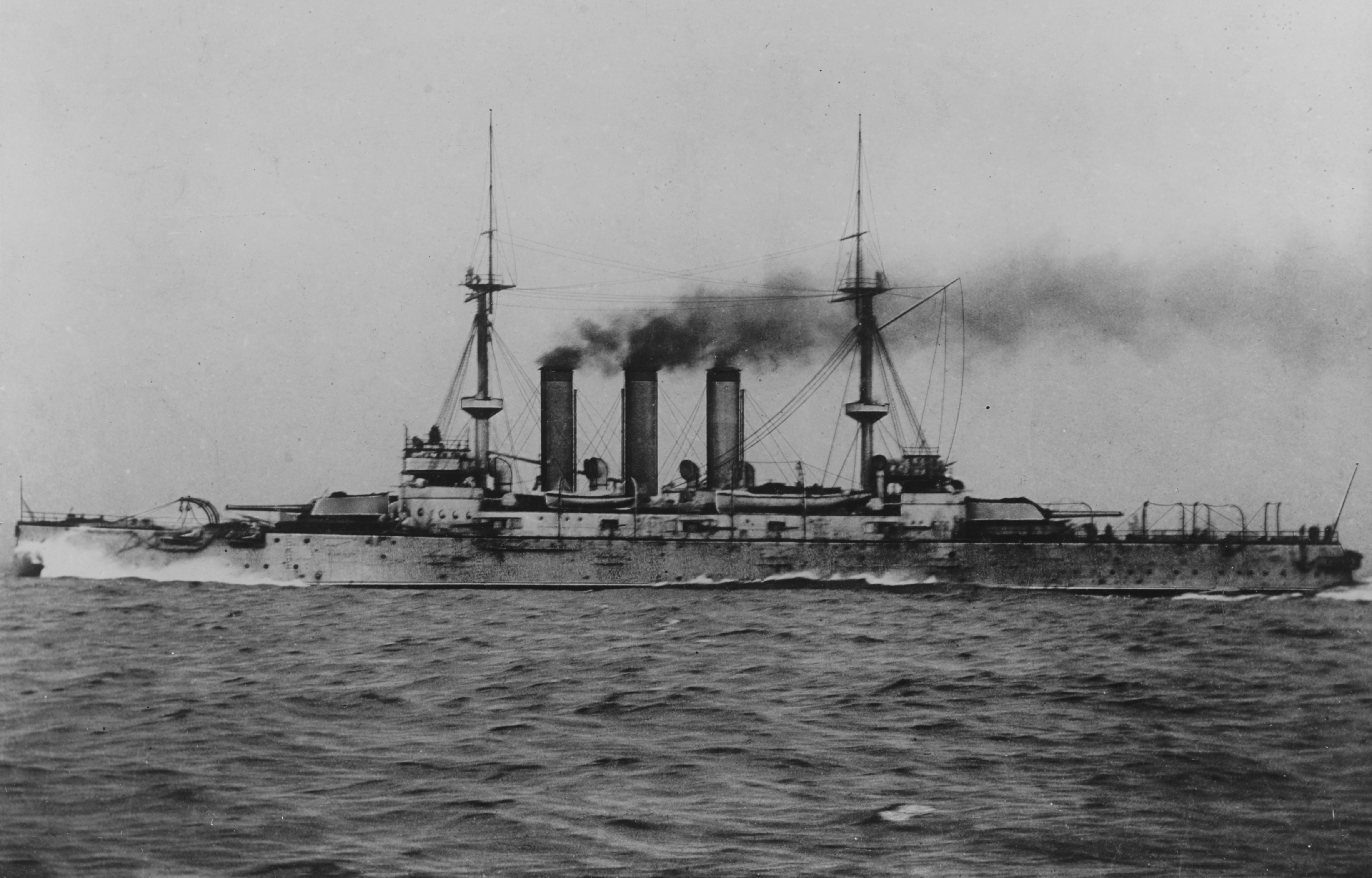 Japanese battleship Hatsuse at speed